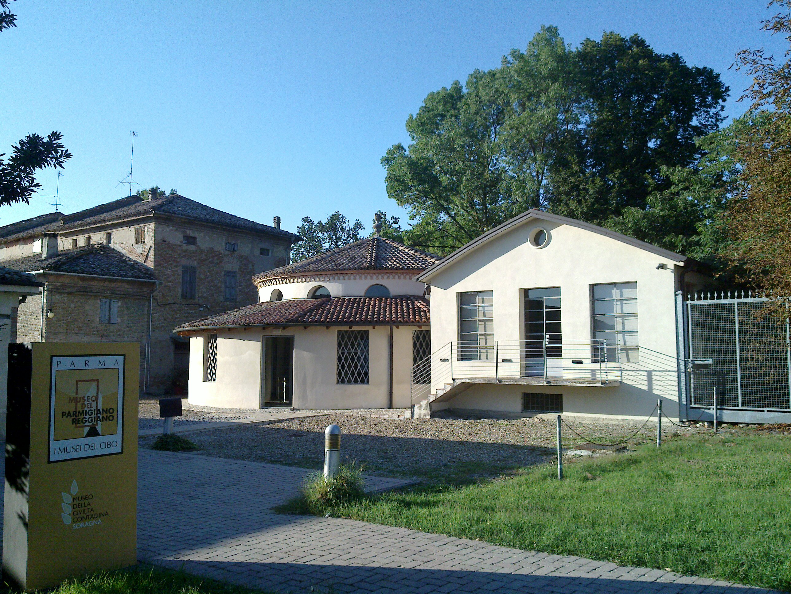 The entrance to the Museum of Parmigiano-Reggiano cheese in Soragna, Parma, Italy